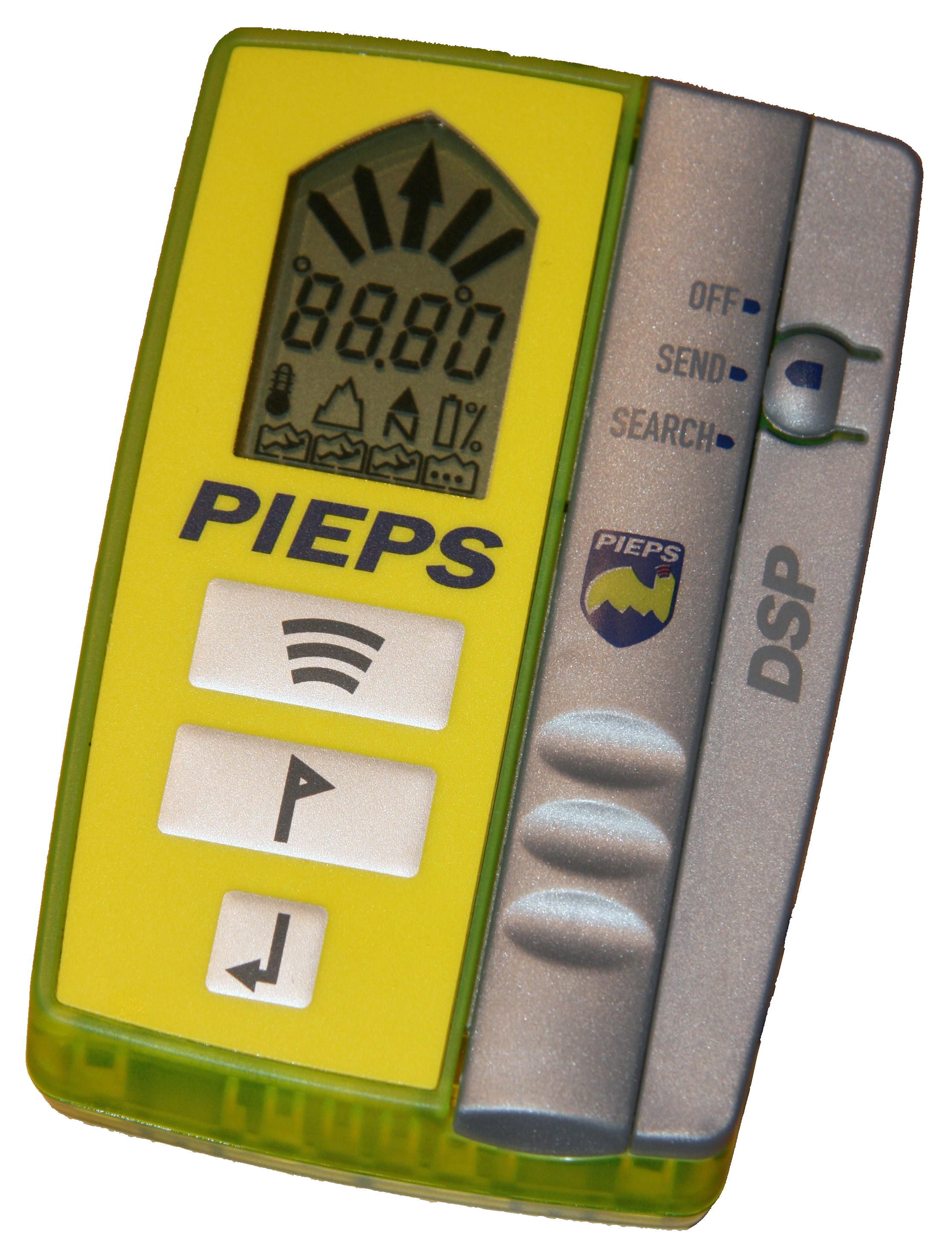 Avalanche transceiver Pieps DSP